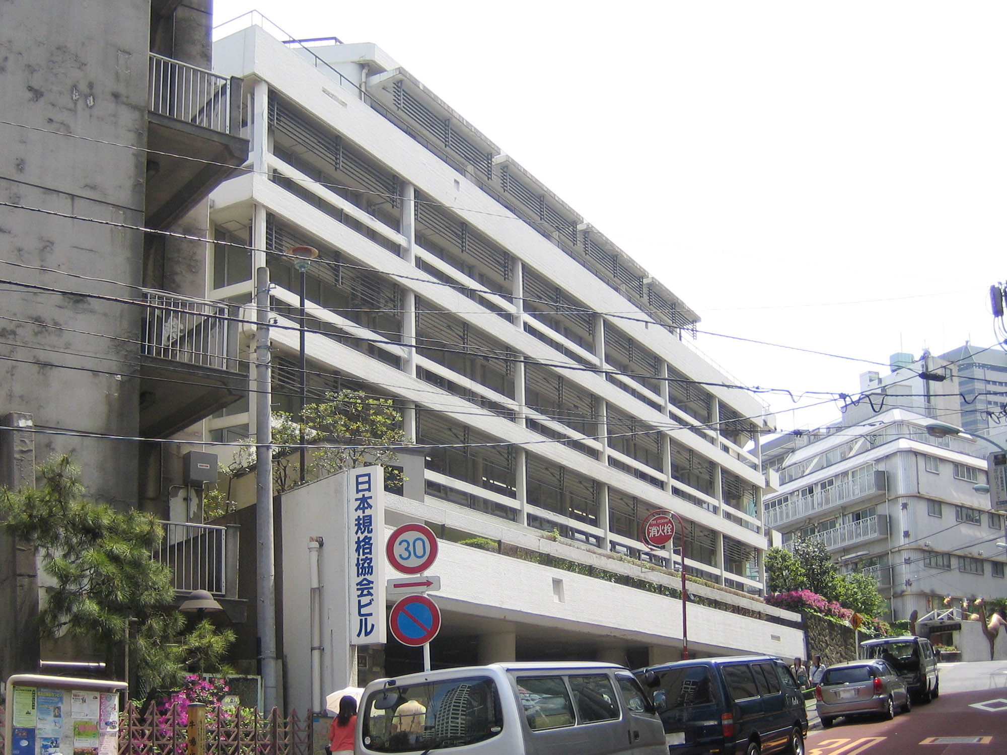 Japanese Standards Association (日本規格協会 Nihon Kikaku Kyōkai), in Minato, Tokyo|Minato, Tokyo, Japan